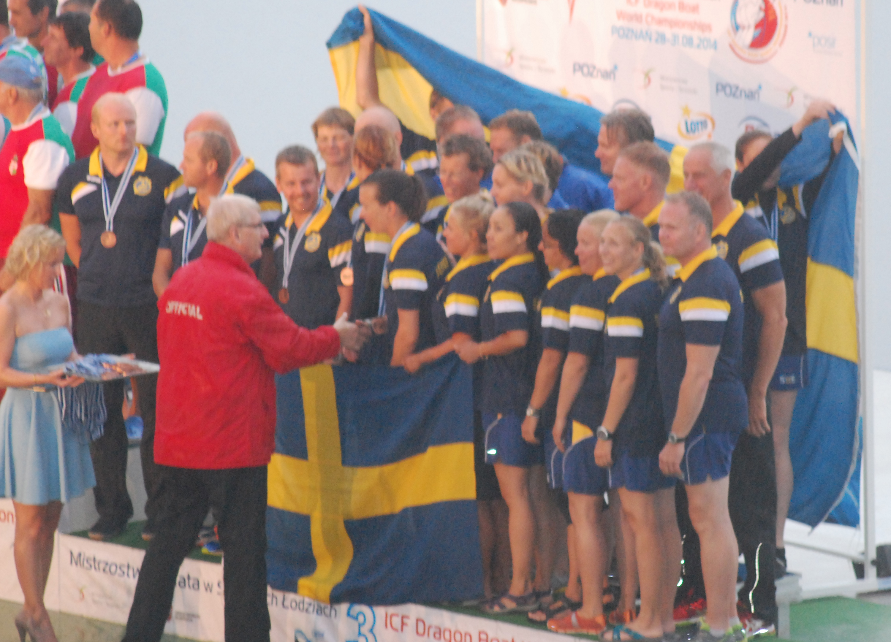 Swedish National Master Team (40+) at the ICF World Championships in Dragon Boating 2014 in Poznan, Poland. Sweden won a bronze medal at the 2000 meter races in standard boat mixed.